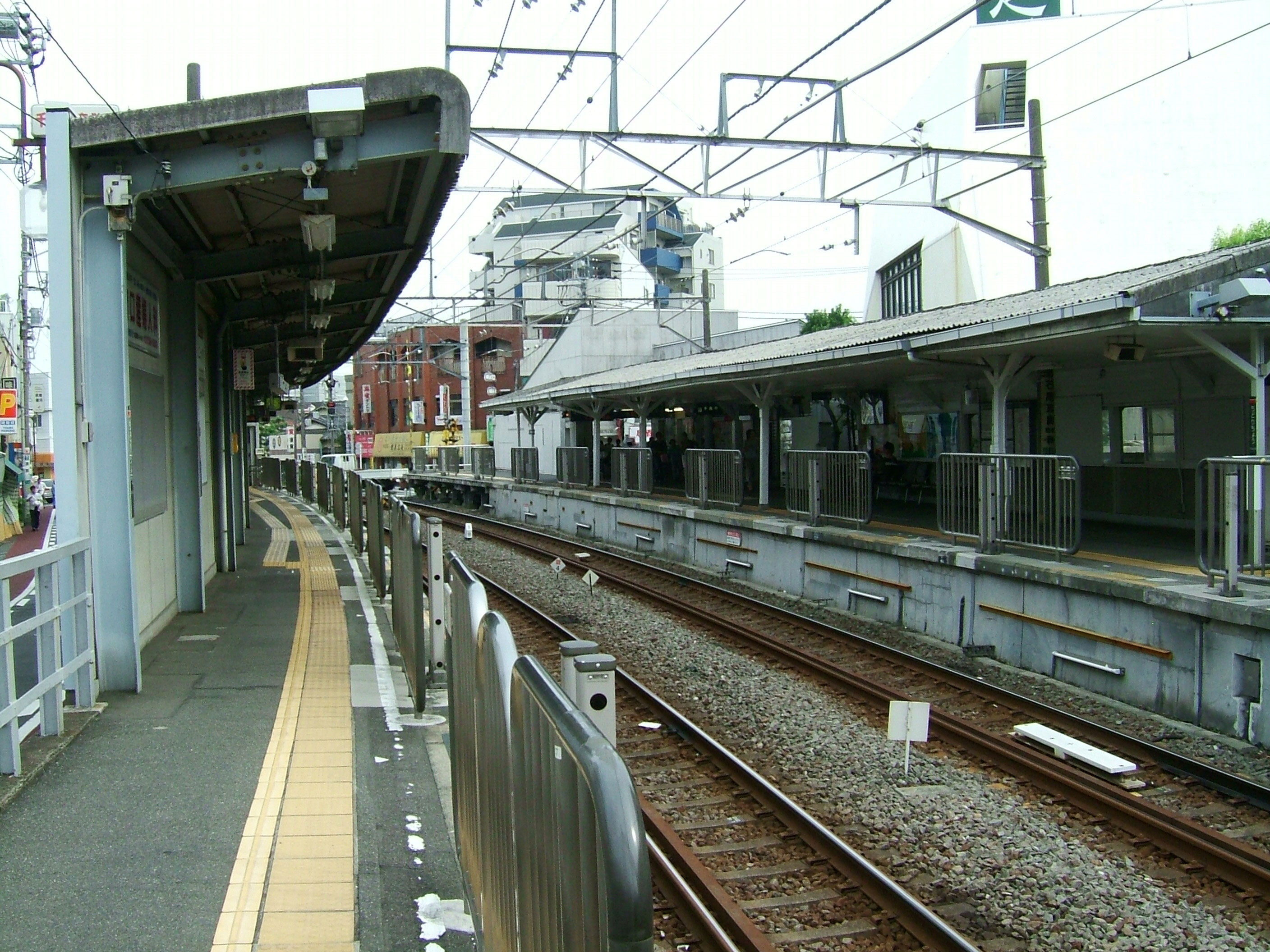 Chidorichō Station platform (Tōkyū Ikegami Line)